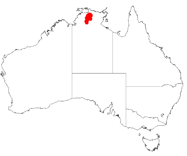 Acacia echinuliflora Occurrence data from Australasia Virtual Herbarium downloaded from on 8 December 2018